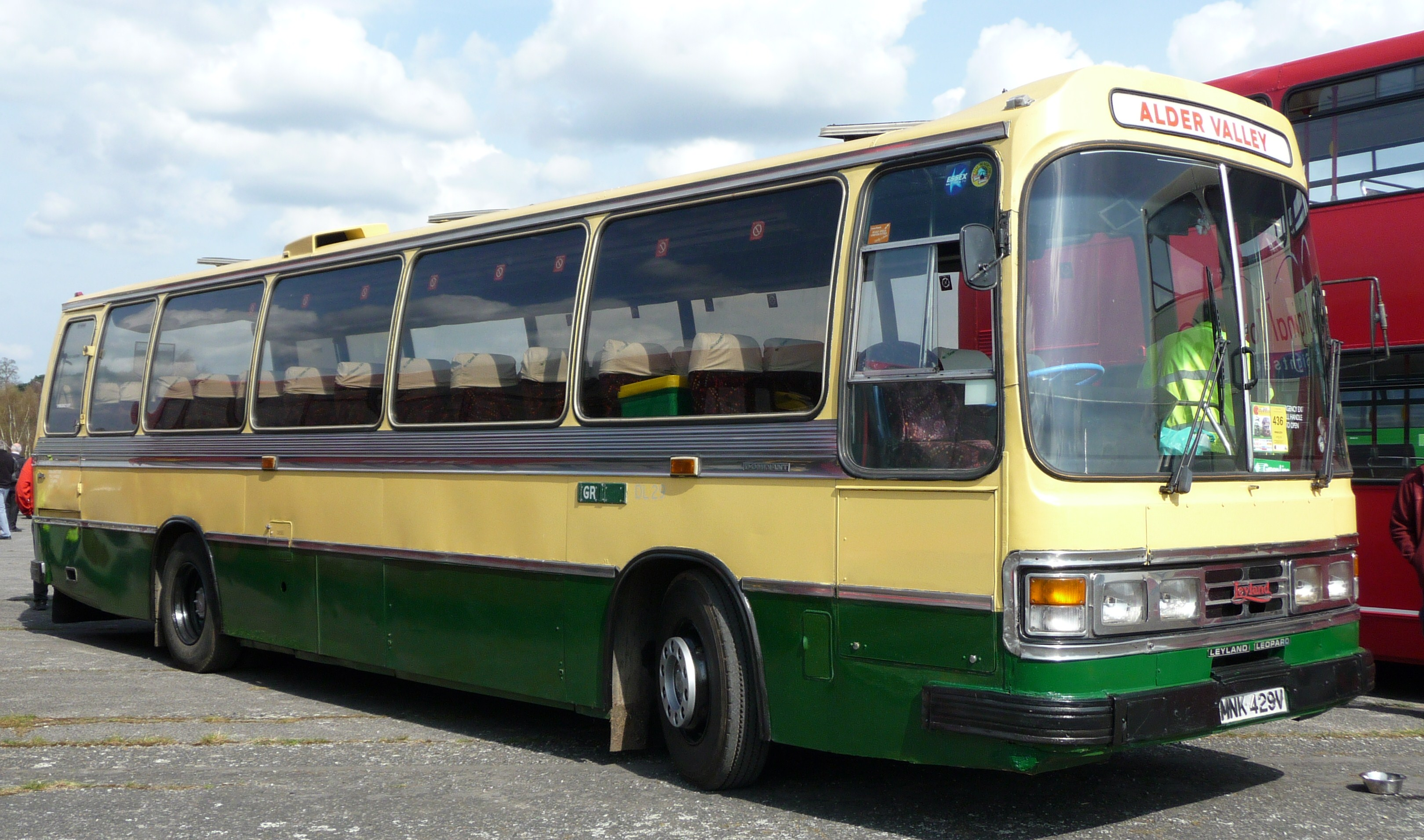 Alder Valley's MNK 429V, a Leyland Leopard/Duple, at the 2009 Cobham bus rally at Wisley Airfield.